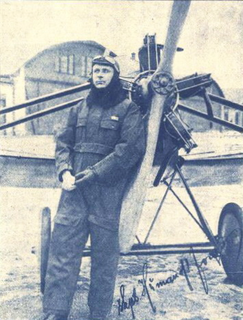 Josef Heřmanský was a Czech fighter pilot and commander.